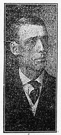 Edmonton sportsman William Freeman "Deacon" White.